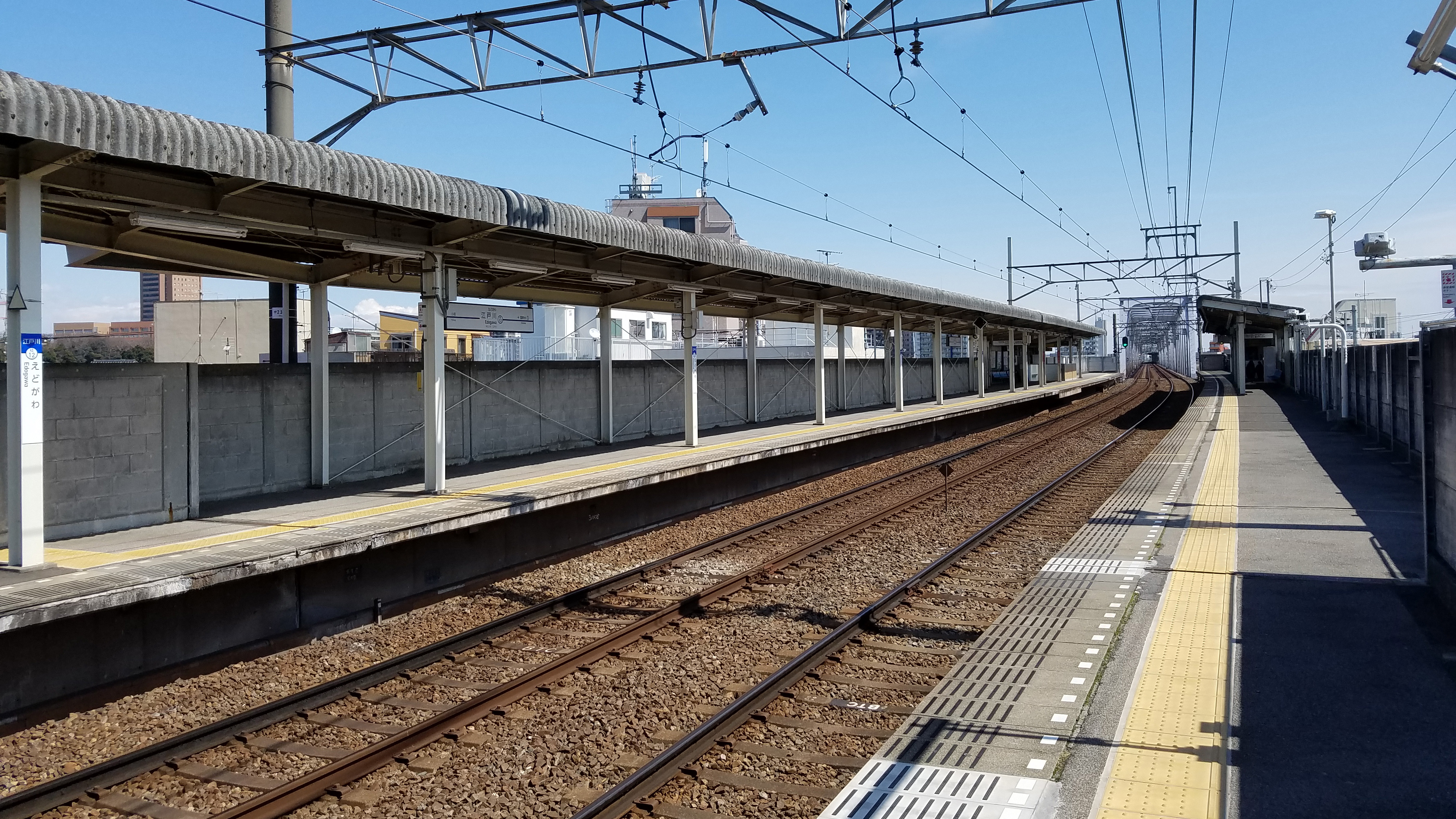 The platforms at Edogawa Station on the Keisei Main Line in Edogawa Ward, Tokyo, Japan